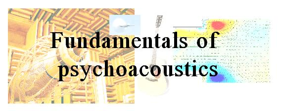 Fundamentals of psychoacoustics